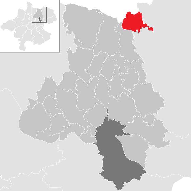 District Urfahr-Umgebung